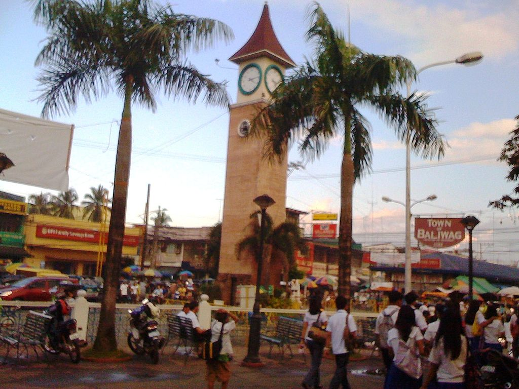 Glorietta Paza, Baliuag